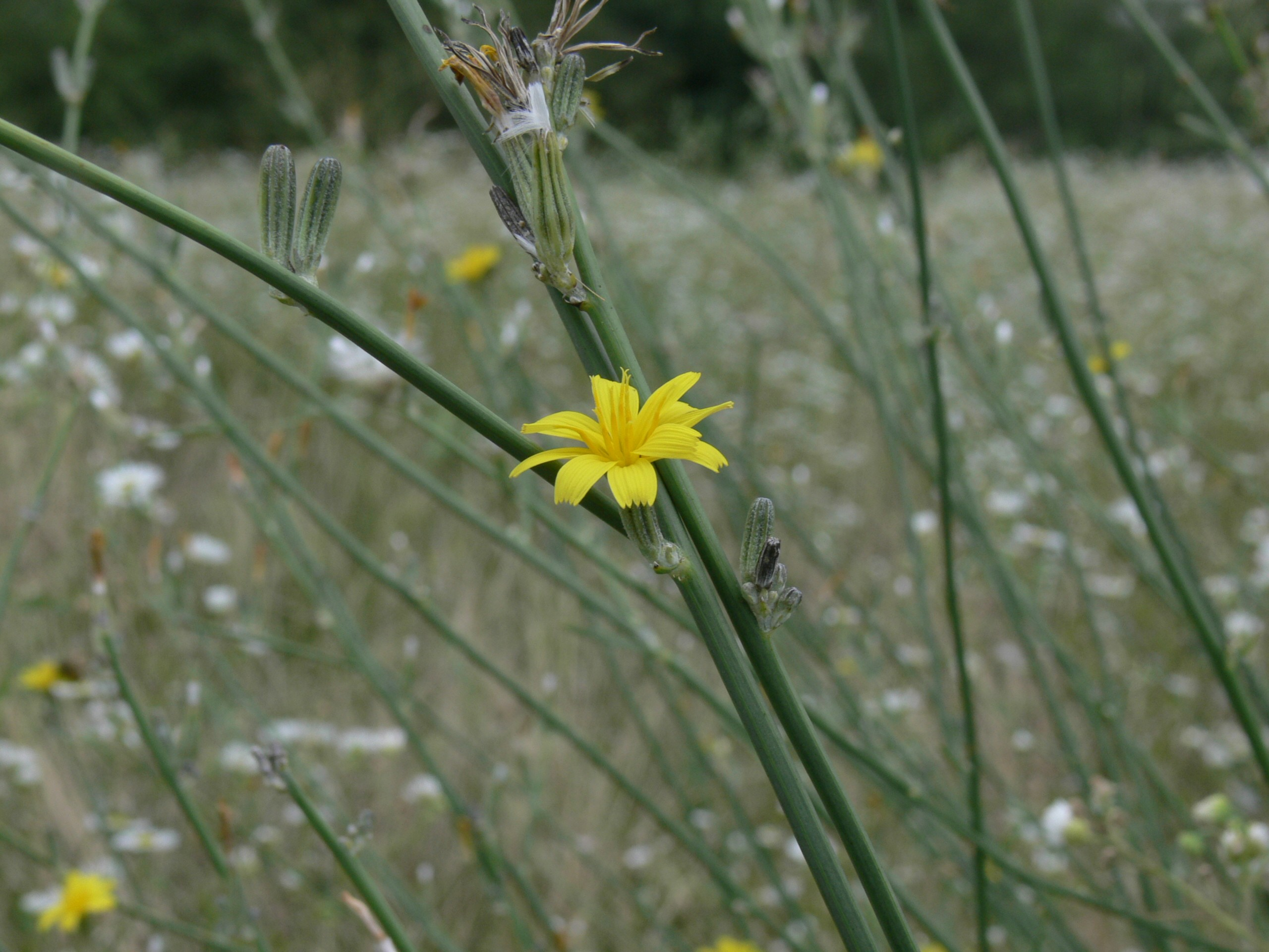 rush skeletonweed